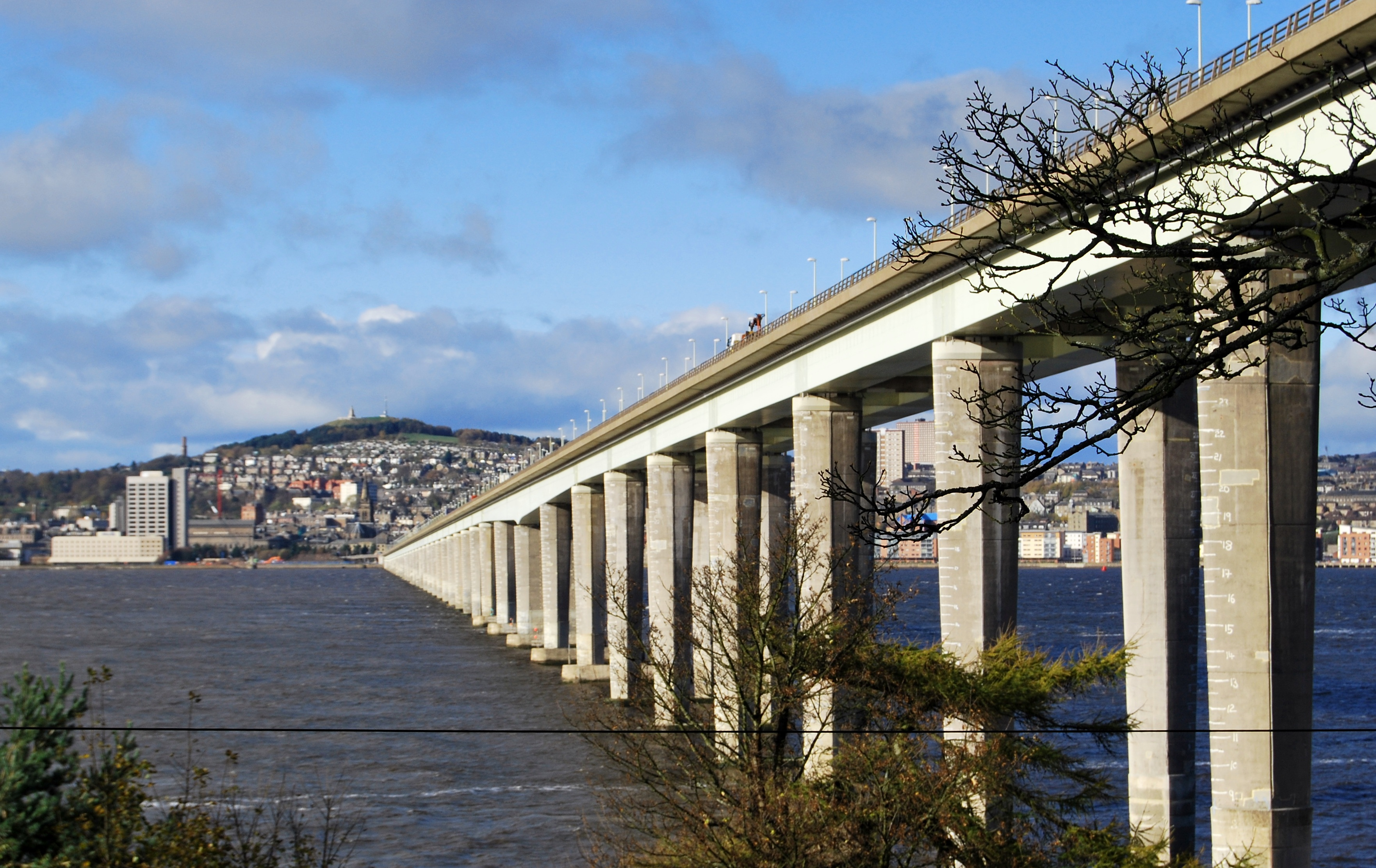 Tay Road Bridge from south